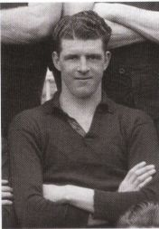 Photo of Ron Baggott taken before 1945